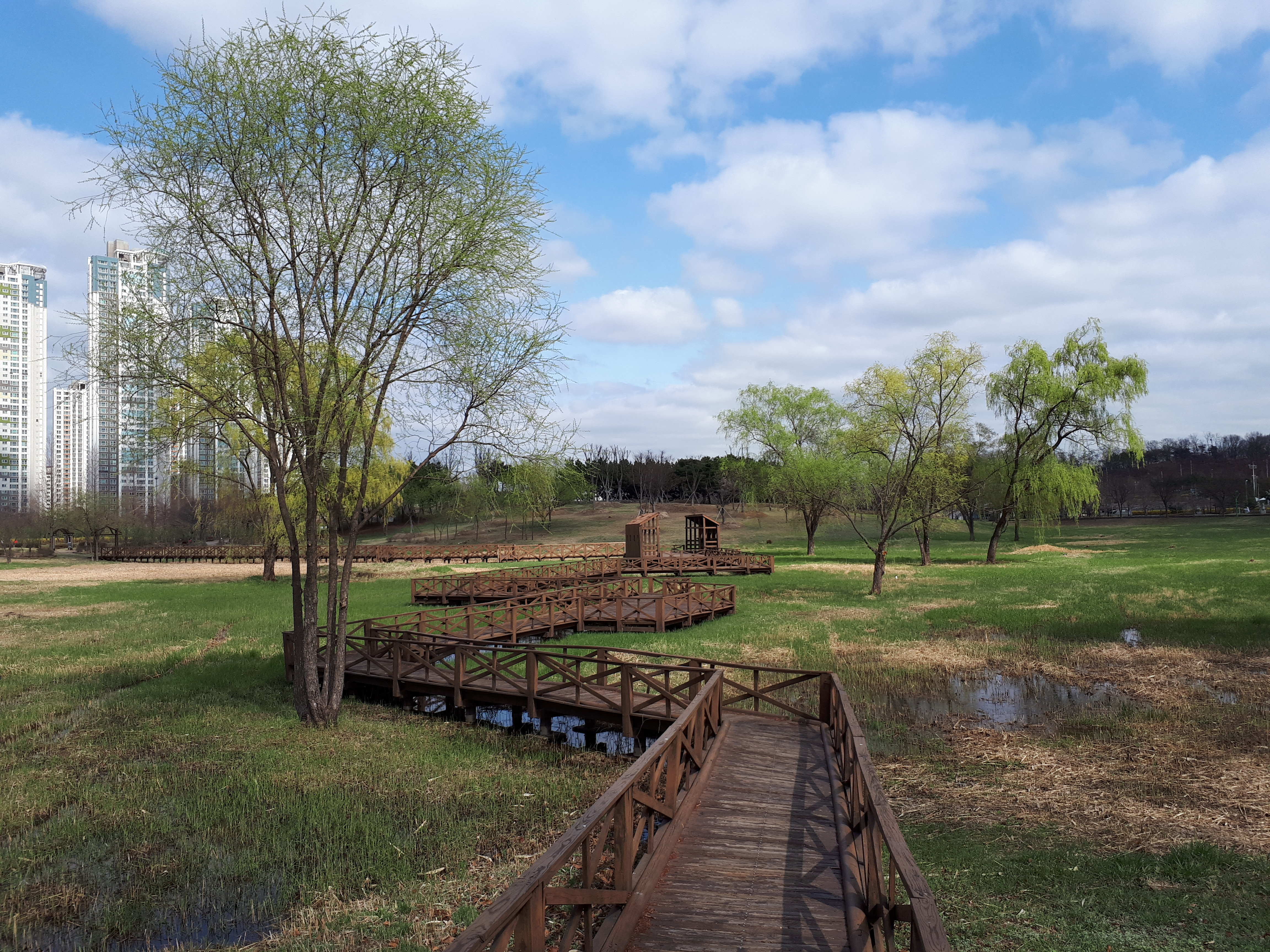 Ansan Lake Park